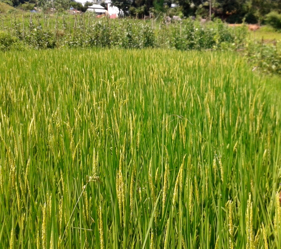 Agriculture Field Pakhanjore